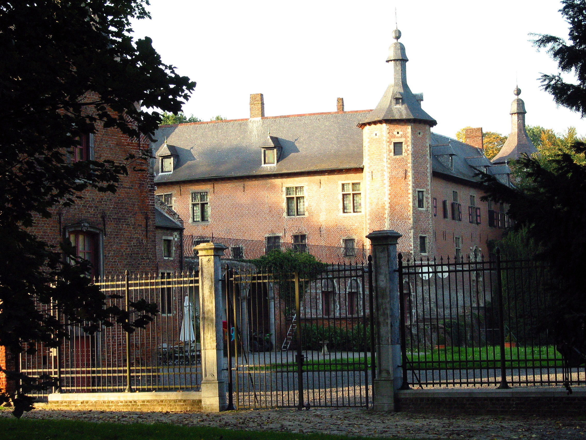 Rixensart (Belgium), the castle of the de Merode family (XVIIth century).